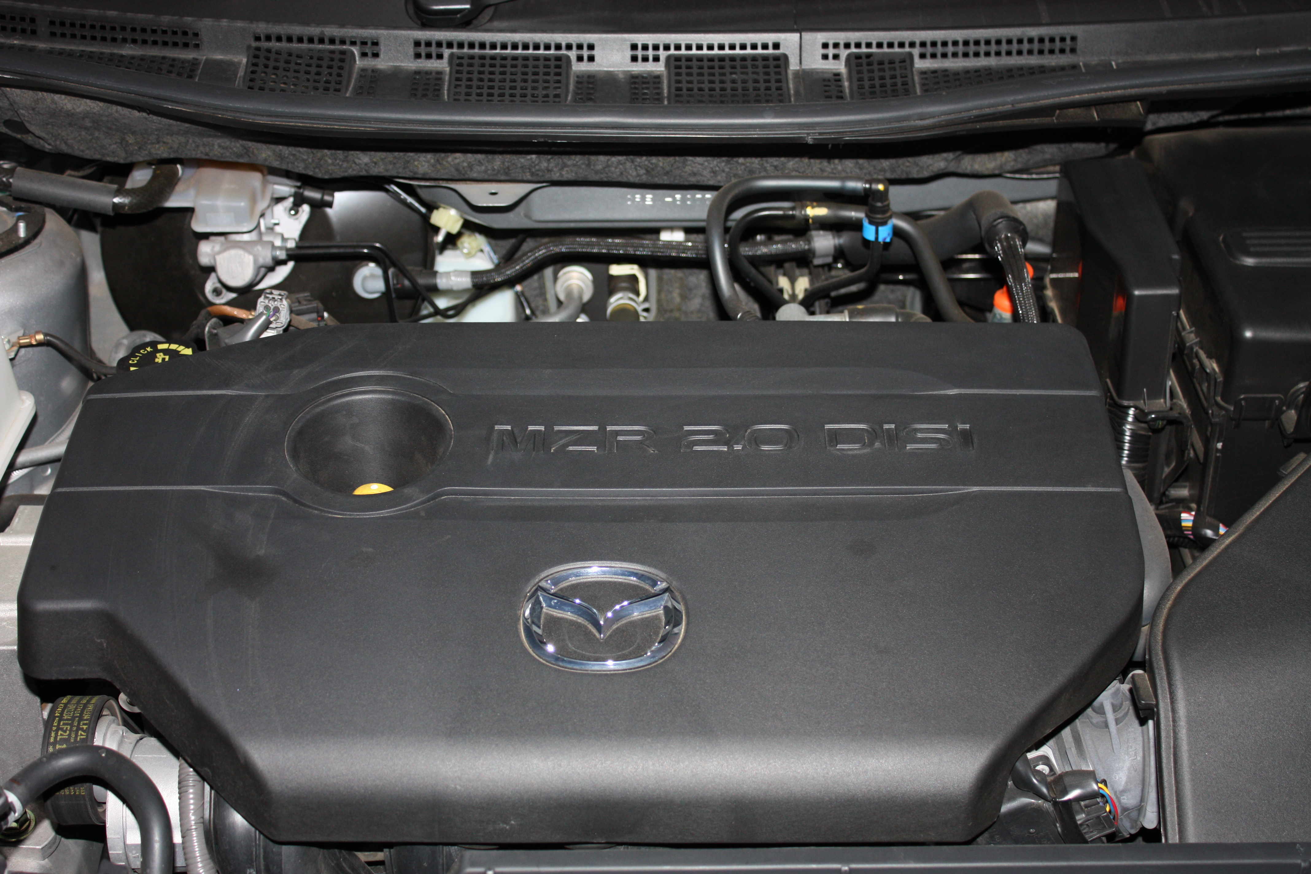 Premacy(Mazda5) engine (LF-VD,MZR DISI2.0)